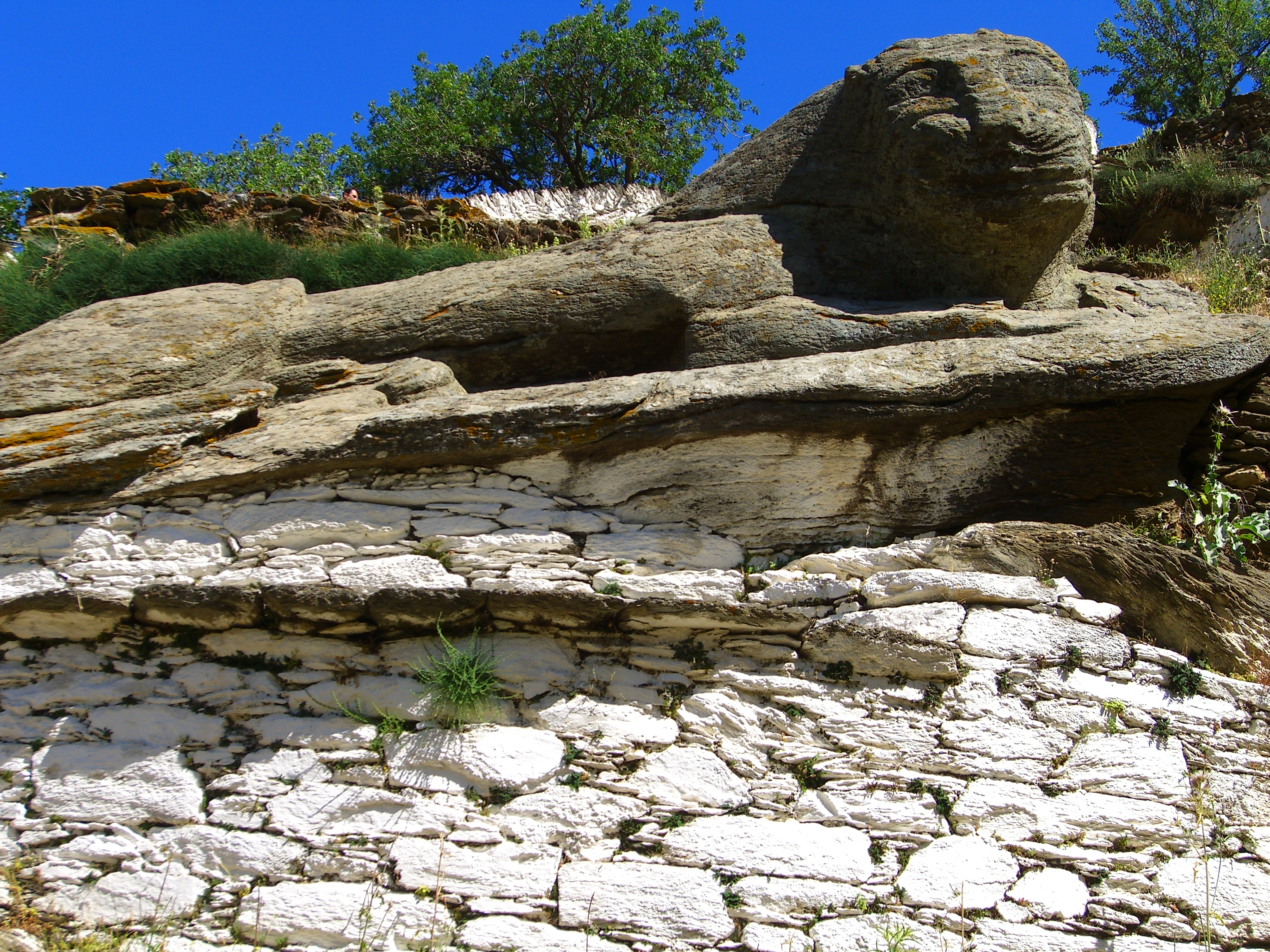 Kea 840 02, Greece